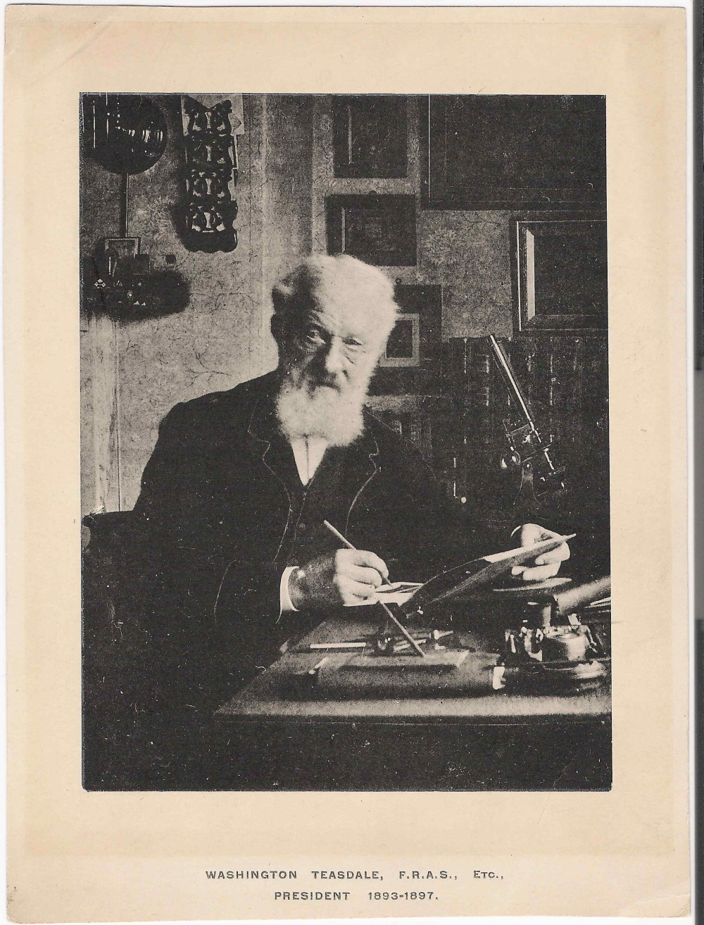 Self-portrait of Washington Teasdale, during his role as President of the Leeds Astronomical Society.